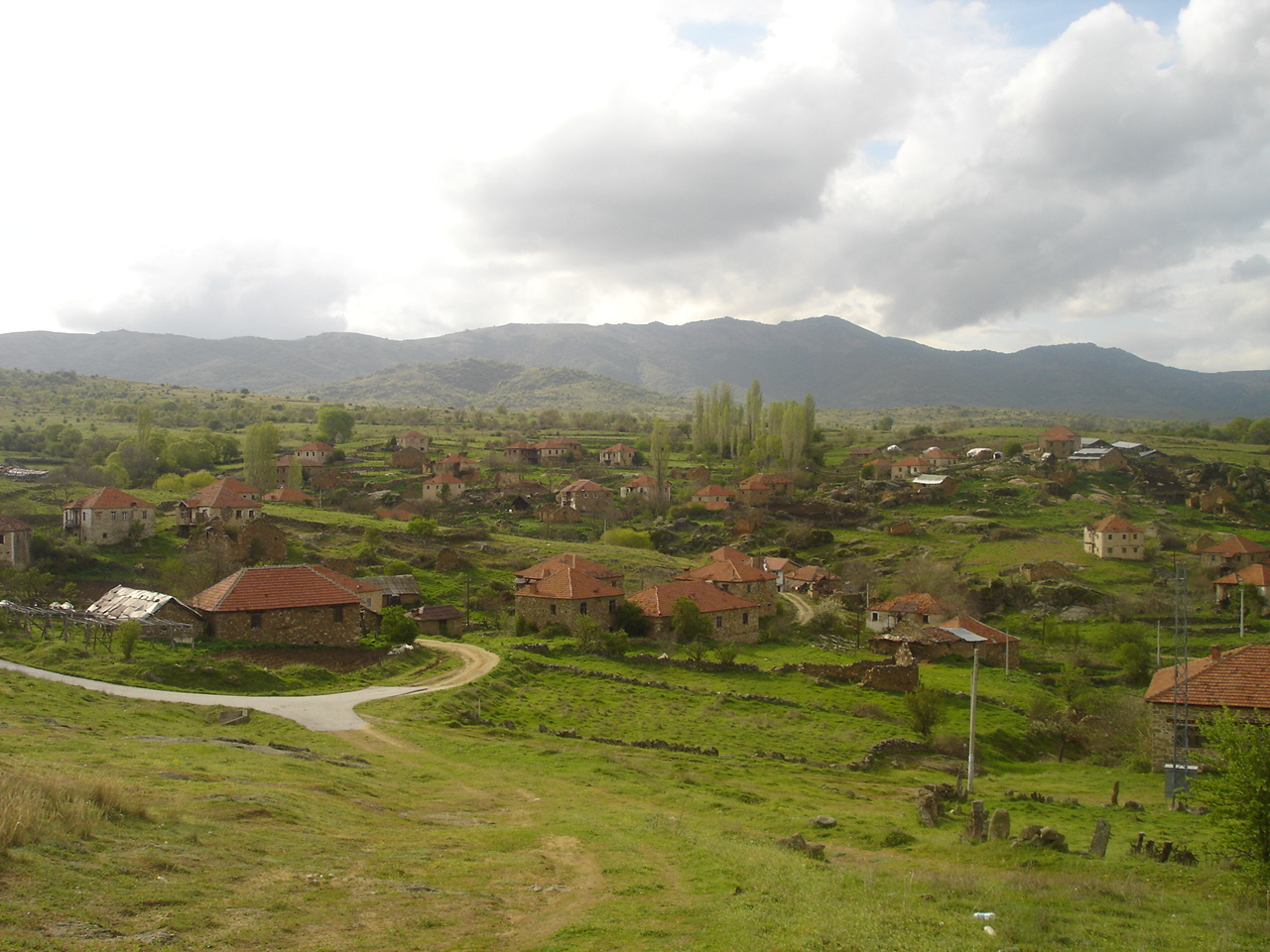 village of Chanishte in Mariovo region, Macedonia